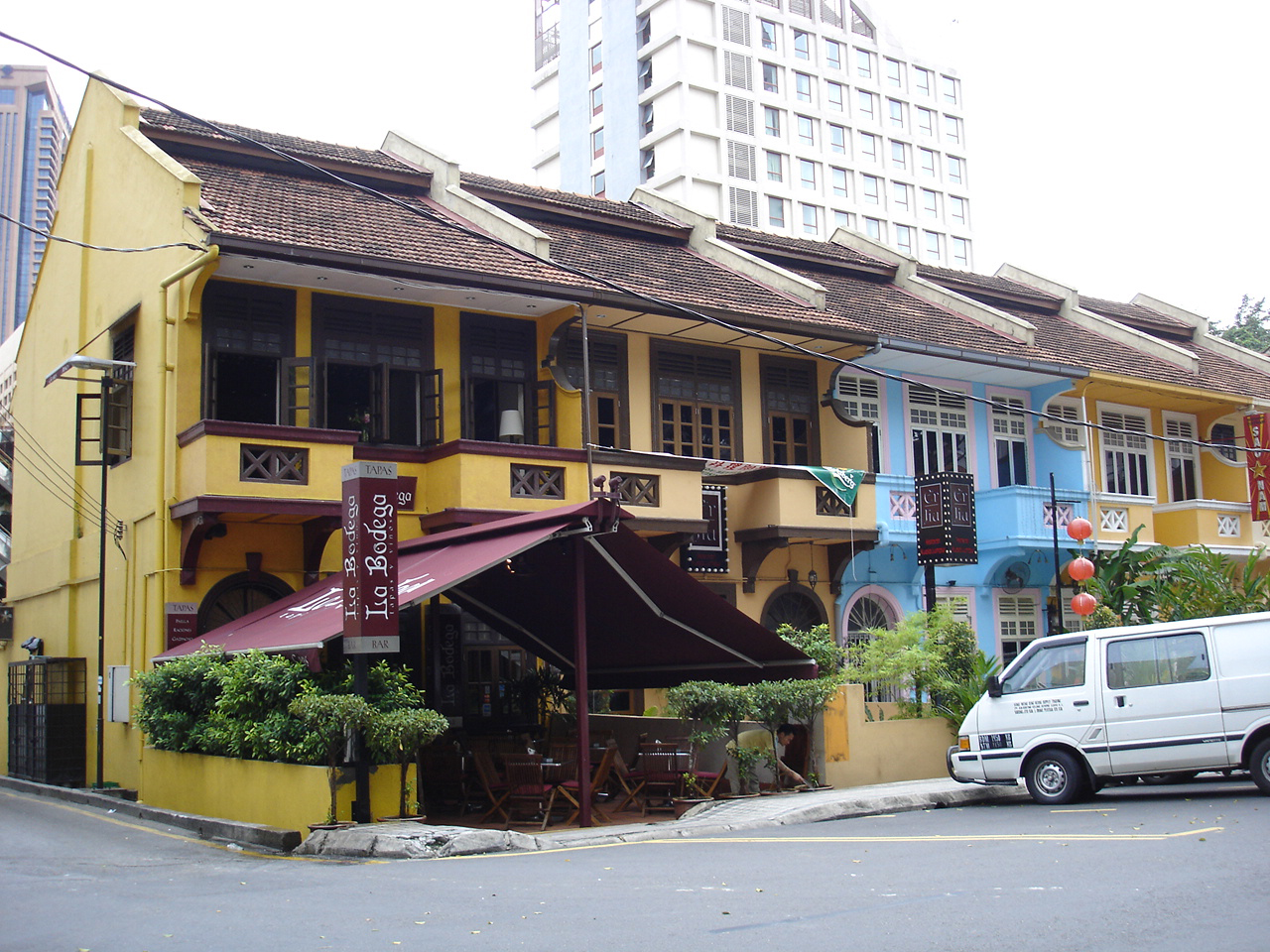 Pre-war shoplots refurbished into restaurants and bars along Tengkat Tong Shin.